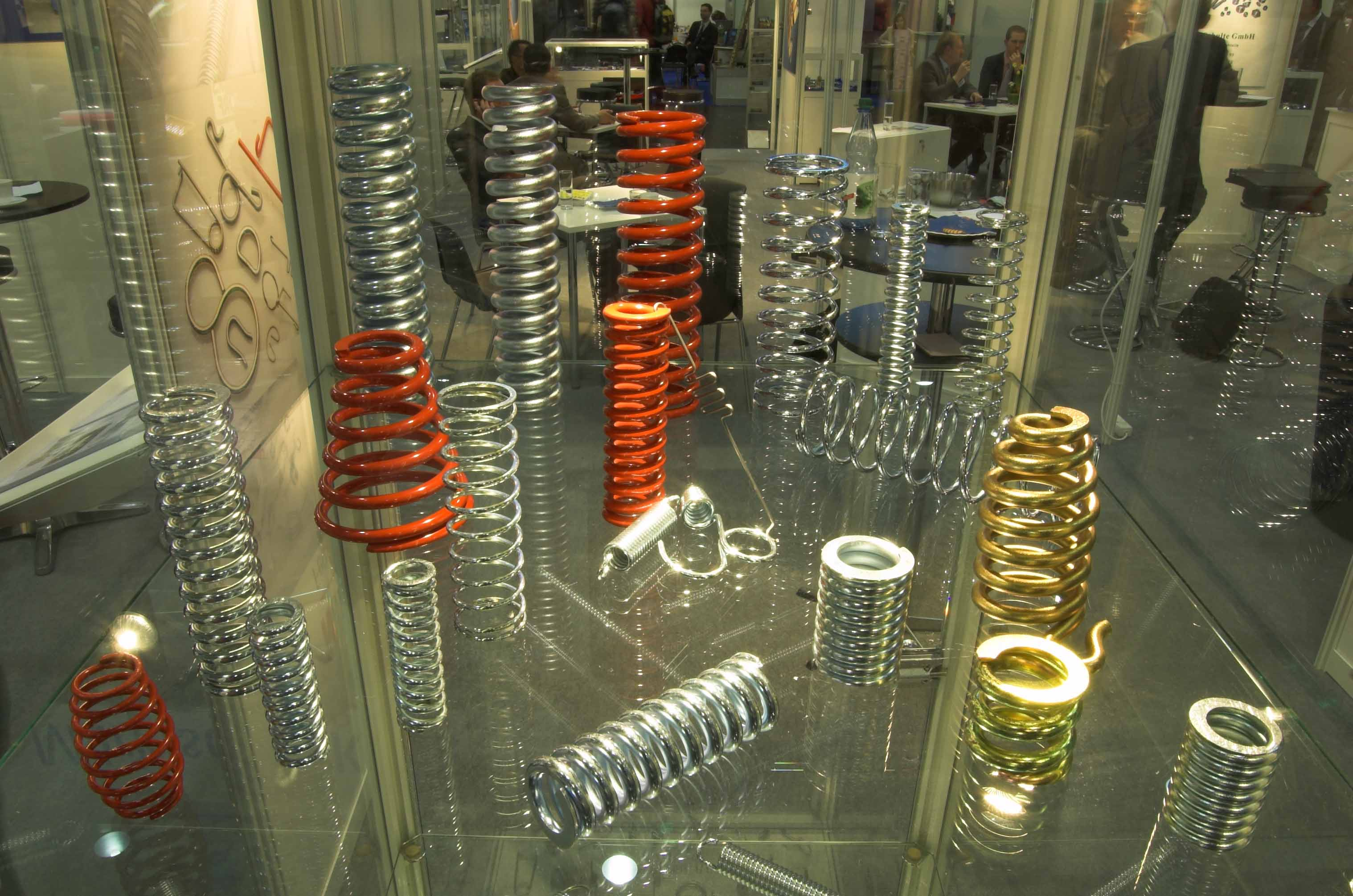 compression springs